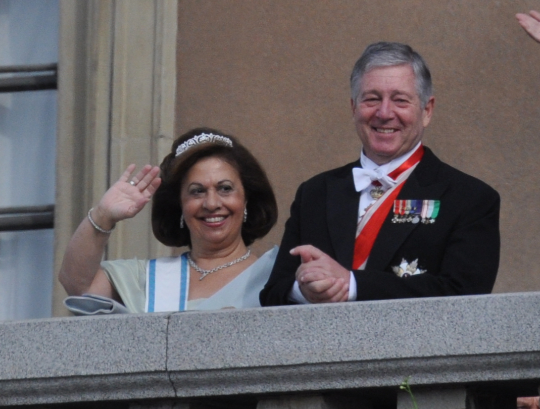 Wedding of Victoria, Crown Princess of Sweden, and Daniel Westling. Guests at the terrace at Lejonbacken: Crown Prince Alexander II and Crown Princess Katherine of Serbia.